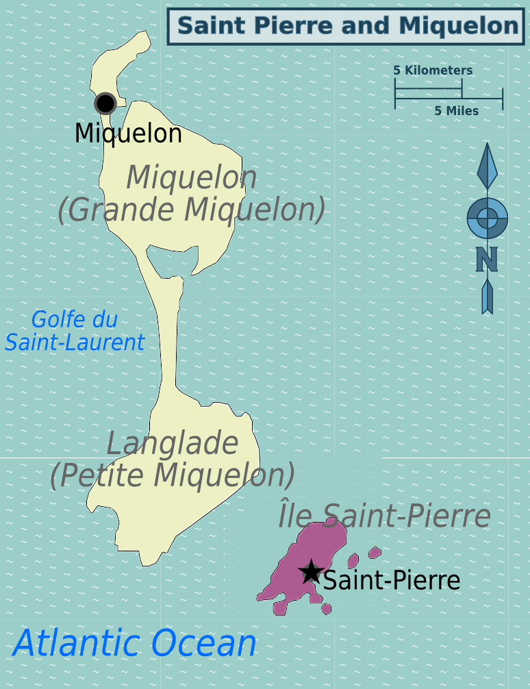 Map for Wikivoyage's article Saint Pierre and Miquelon.